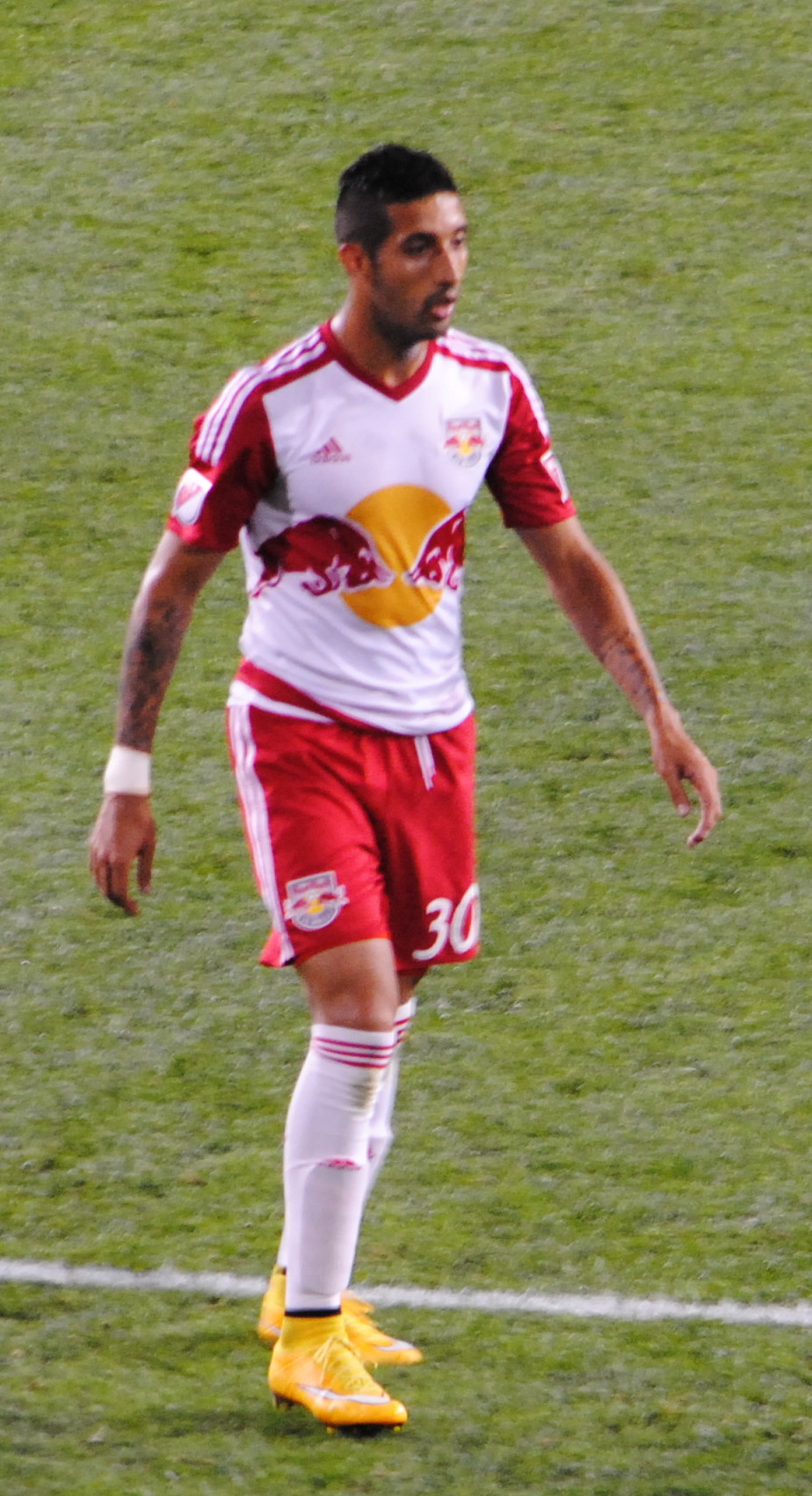 Veron RBNY